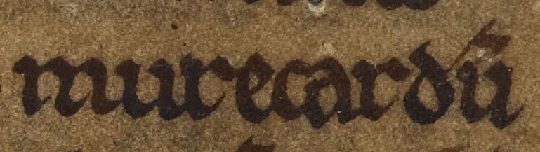 An excerpt from folio 33v of British Library MS Cotton Julius A VII (the Chronicle of Mann). The excerpt reads in Latin "Murecardum". The excerpt concerns the title of Muirchertach Ua Briain, King of Munster (died 1119).